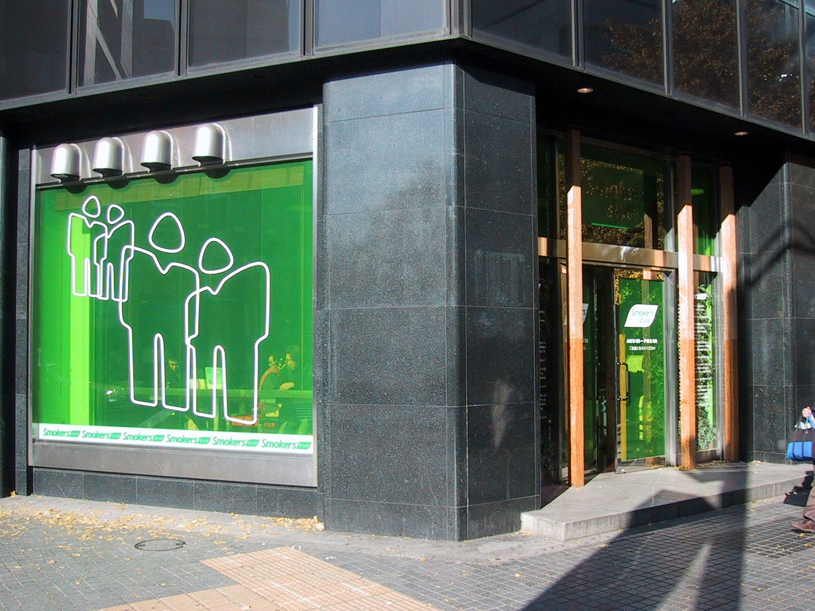 Smoking is prohibited on some streets in Tokyo. Hence, special places for smokers are established. This is one such place in Akihabara, Smokers Style. The green windows are tinted, not due to dirt from smoke.